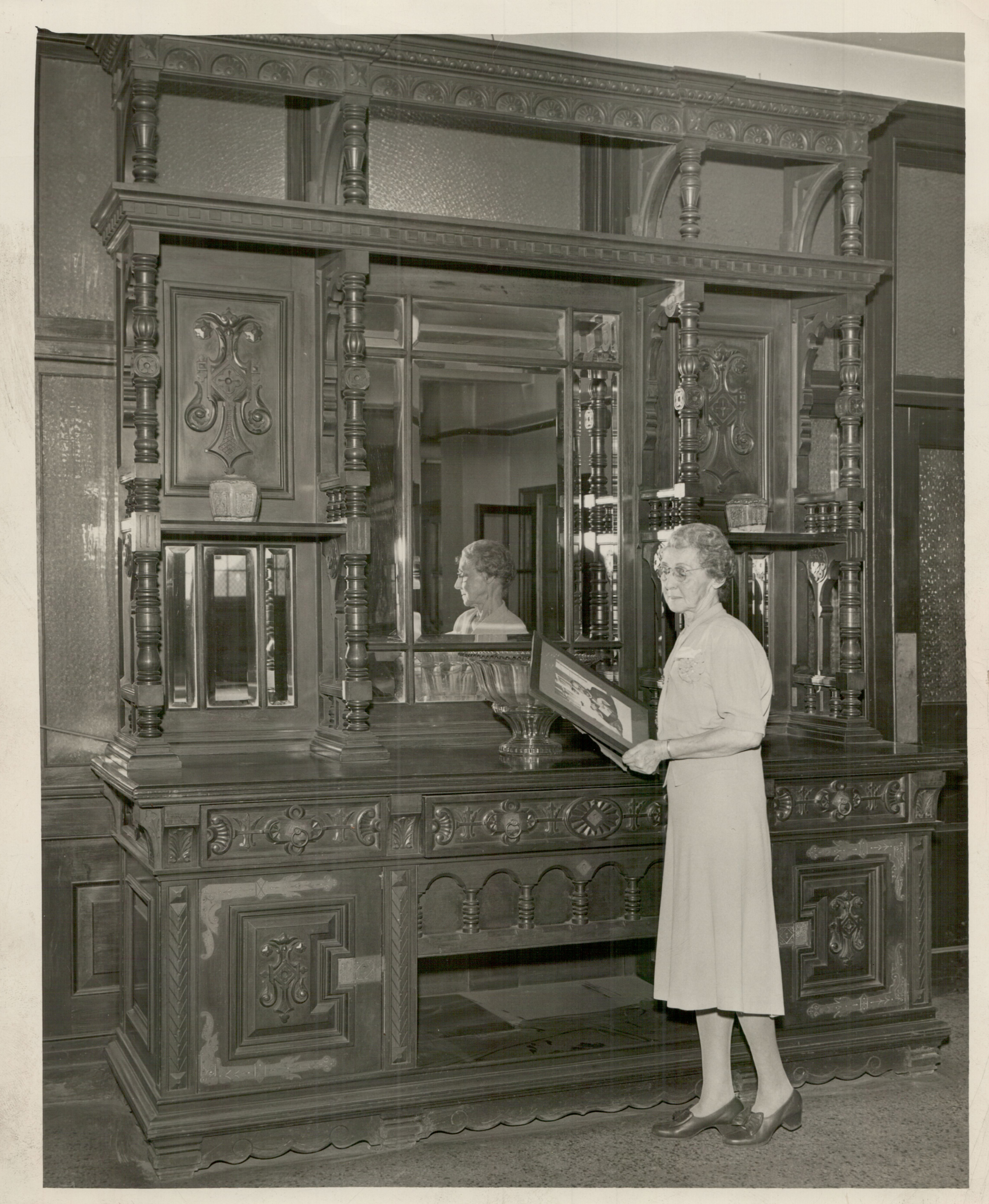 Marcia Noyes with the Osler sideboard, holding a framed picture of her friend, Sir William Osler, MD